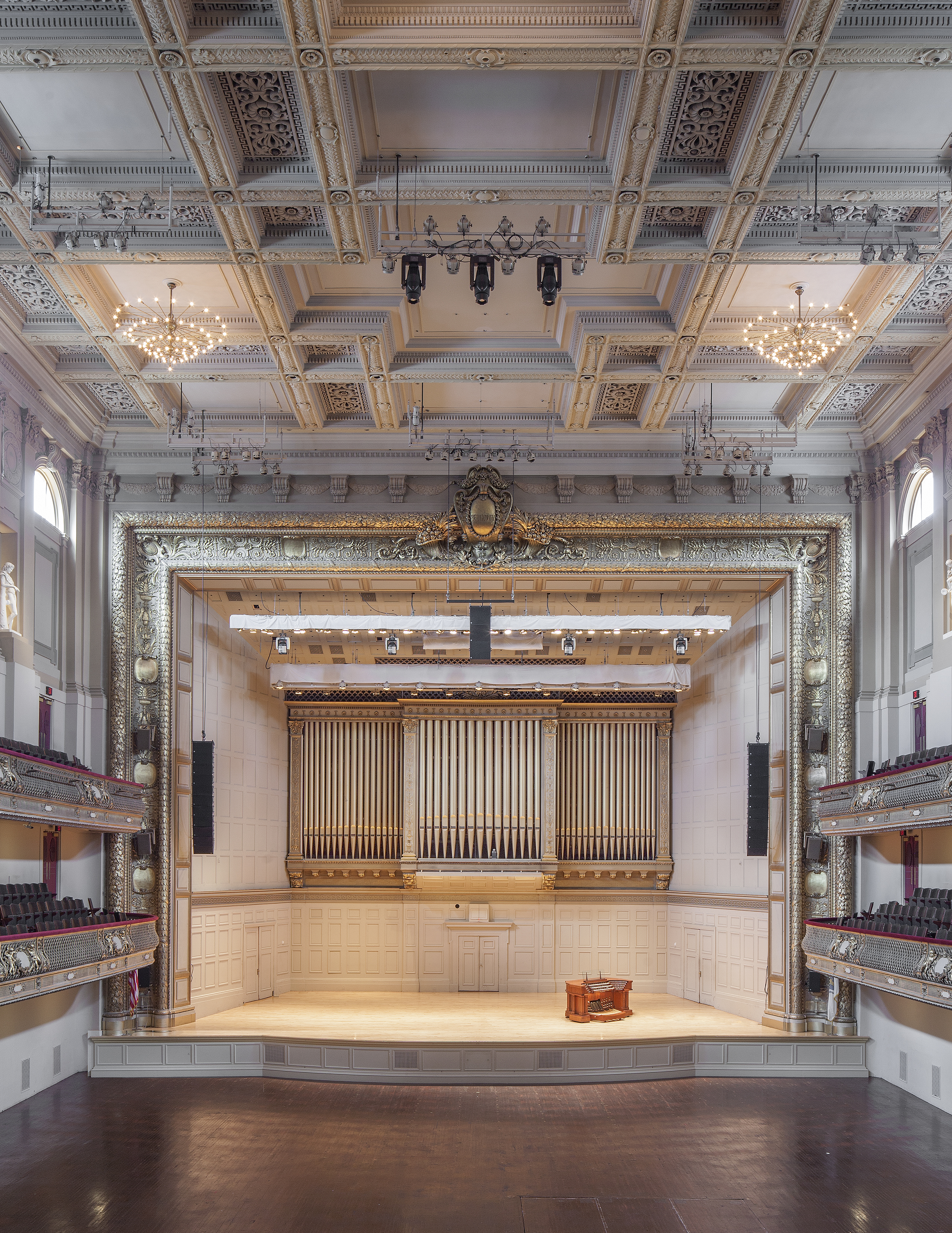 Symphony and Horticultural Halls, Massachusetts and Huntington Aves. Fenway-Kenmore